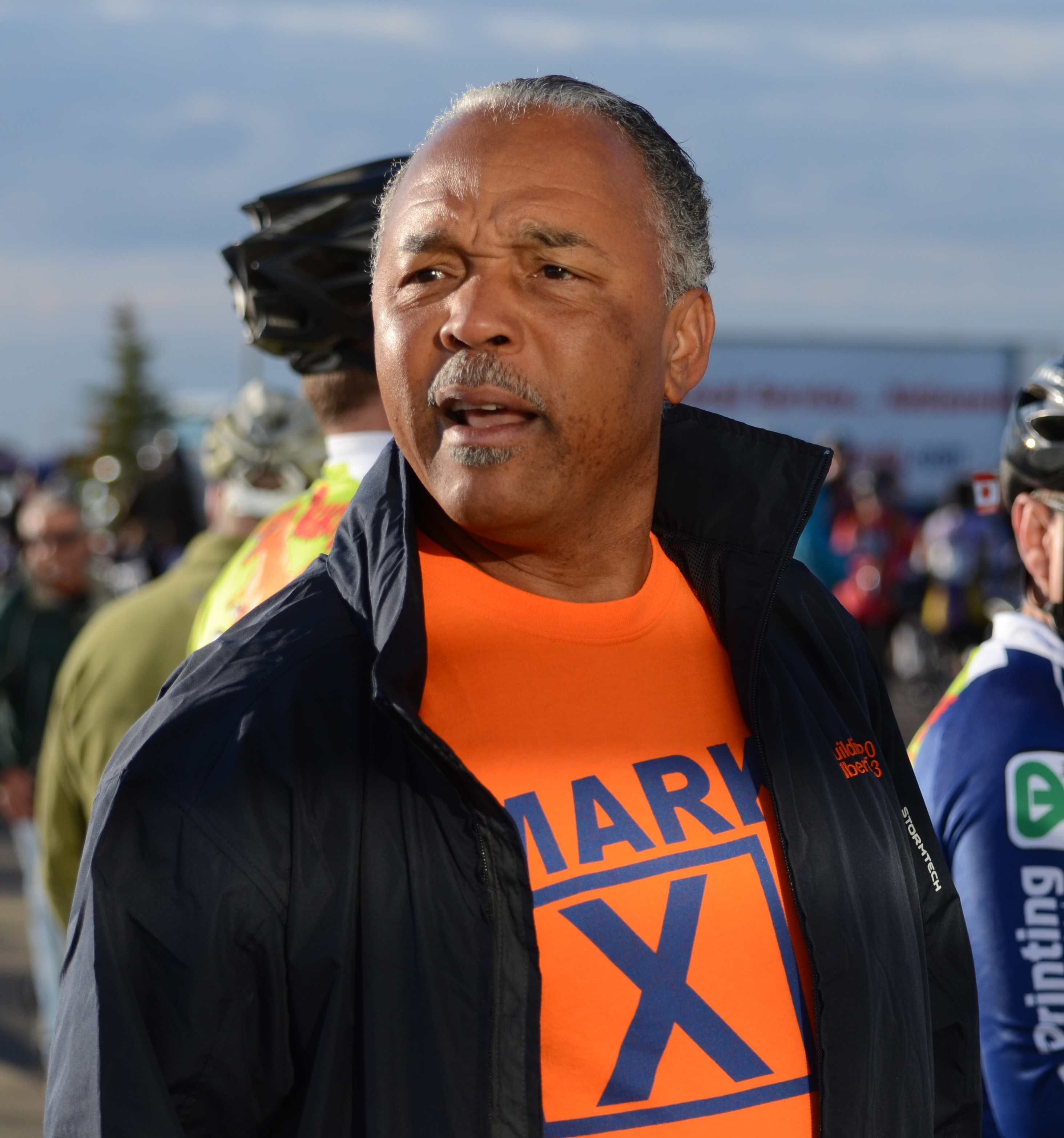 George Rogers at a charity event, June 7, 2014